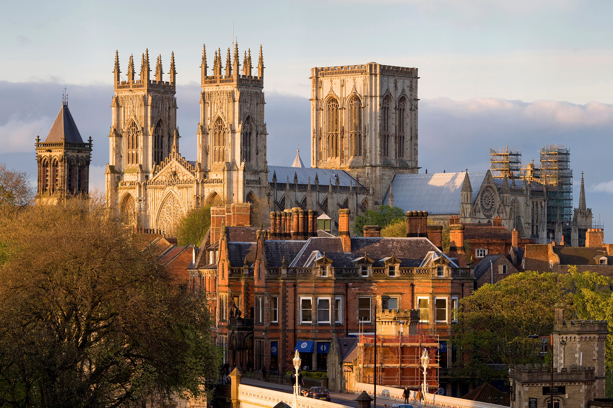 York Minster from the Lendal Bridge